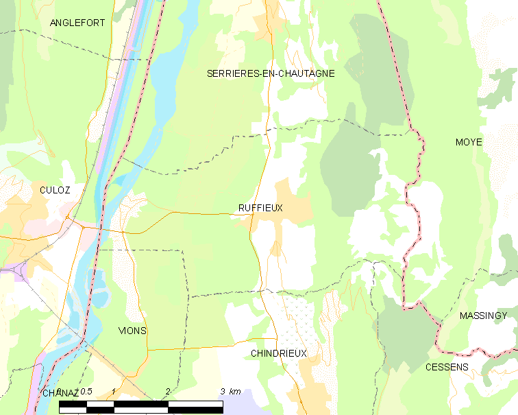 Map of French municipality